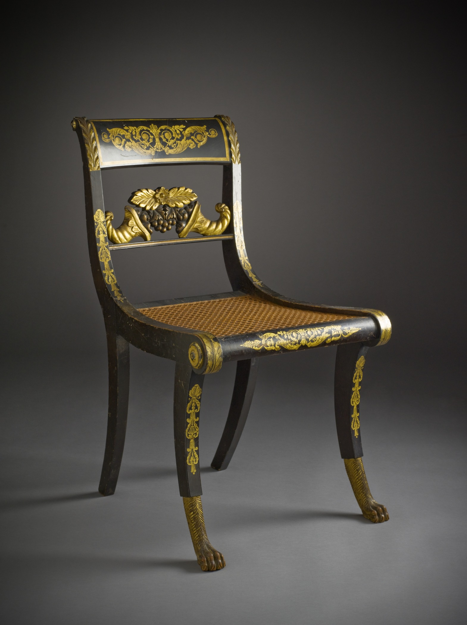 United States, circa 1825 Furnishings; Furniture Ebonized tulip poplar, gilt 31 3/4 x 18 1/2 x 20 3/4 in. (80.65 x 46.99 x 52.71 cm) Gift of Mrs. Murray Braunfeld (M.2006.51.28a-b) Decorative Arts and Design